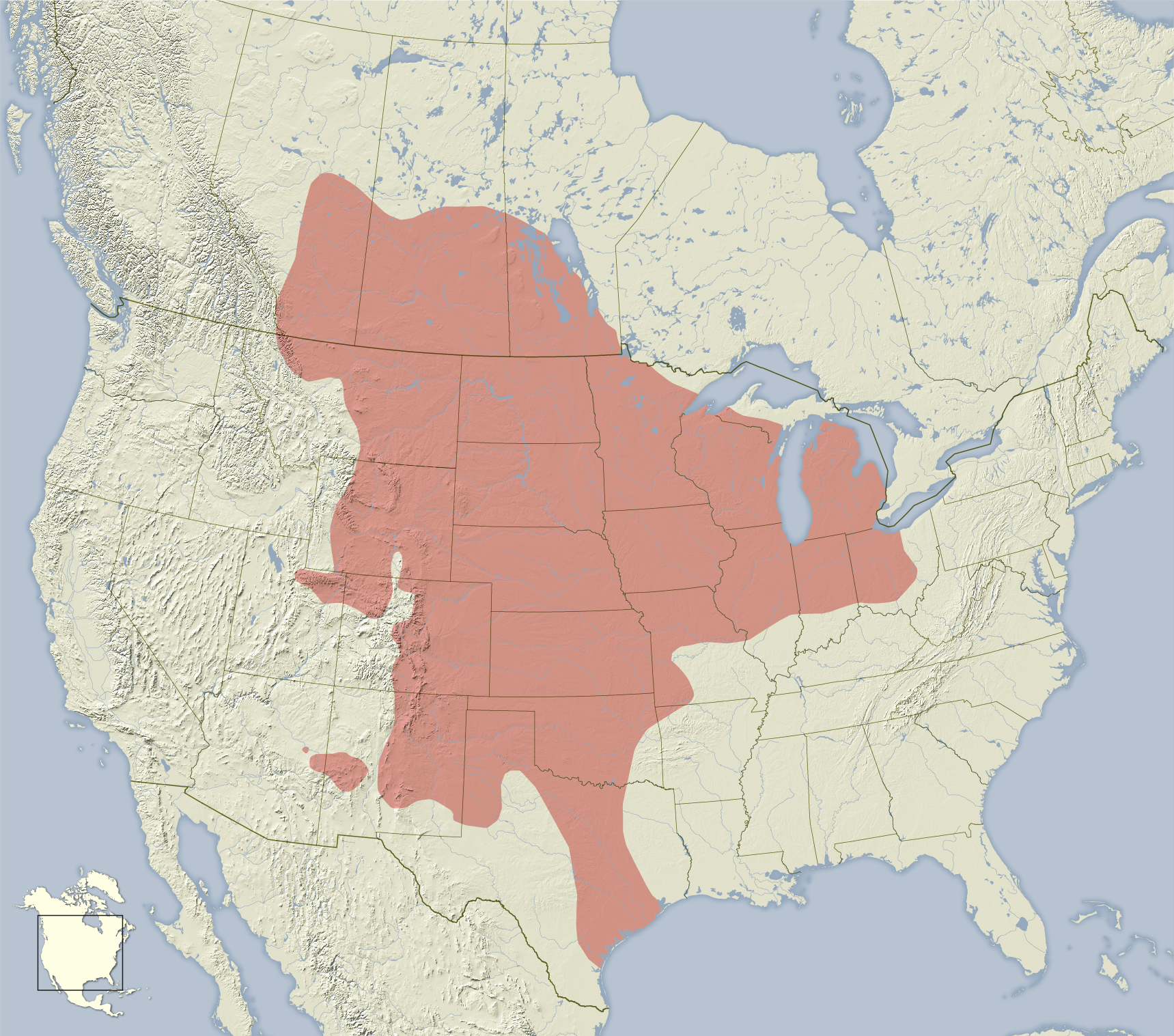 Distribution map of the thirteen-lined ground squirrel